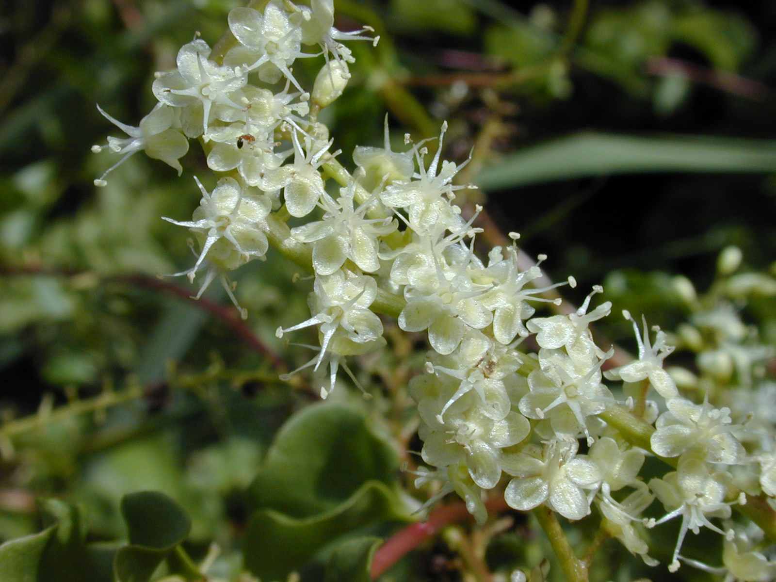 Anredera cordifolia (flowers). Location: Maui, HPoko